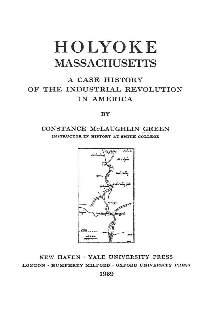 Cover of Holyoke: A Case History of the Industrial Revolution in America by Constance Green, among the most thorough examinations of the origins of that city.